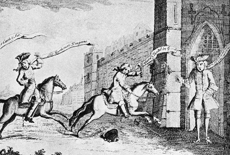 cartoon of General John Cope after Battle of Prestonpans, 1745. Original title: "A Race from Preston Pans to Berwick"